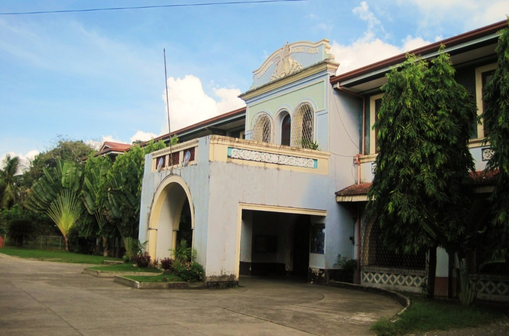 Facade of St. Vincent Ferrer Seminary in Jaro, Iloilo city, Philippine